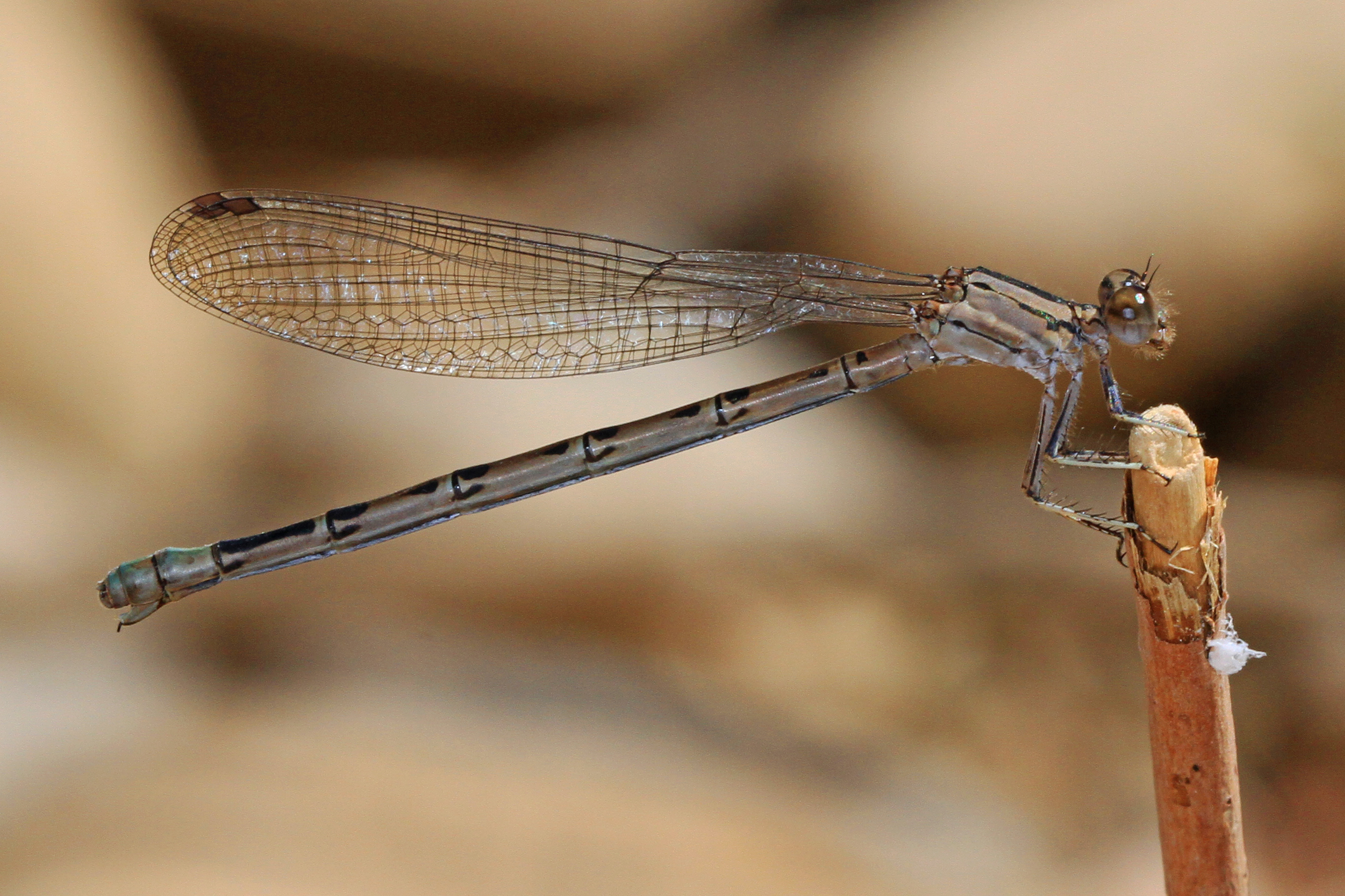 Vivid Dancer - Argia vivida, Zion National Park, Springdale, Utah